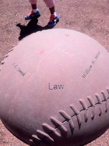 The"Law" Baseball honors I.C.Smith and The oversized baseballs at the Coleman Park Community Center honor the area’s gloried past. The center is built in the old Lincoln Park, where Negro League legends such as Satchel Paige and Josh Gibson played.